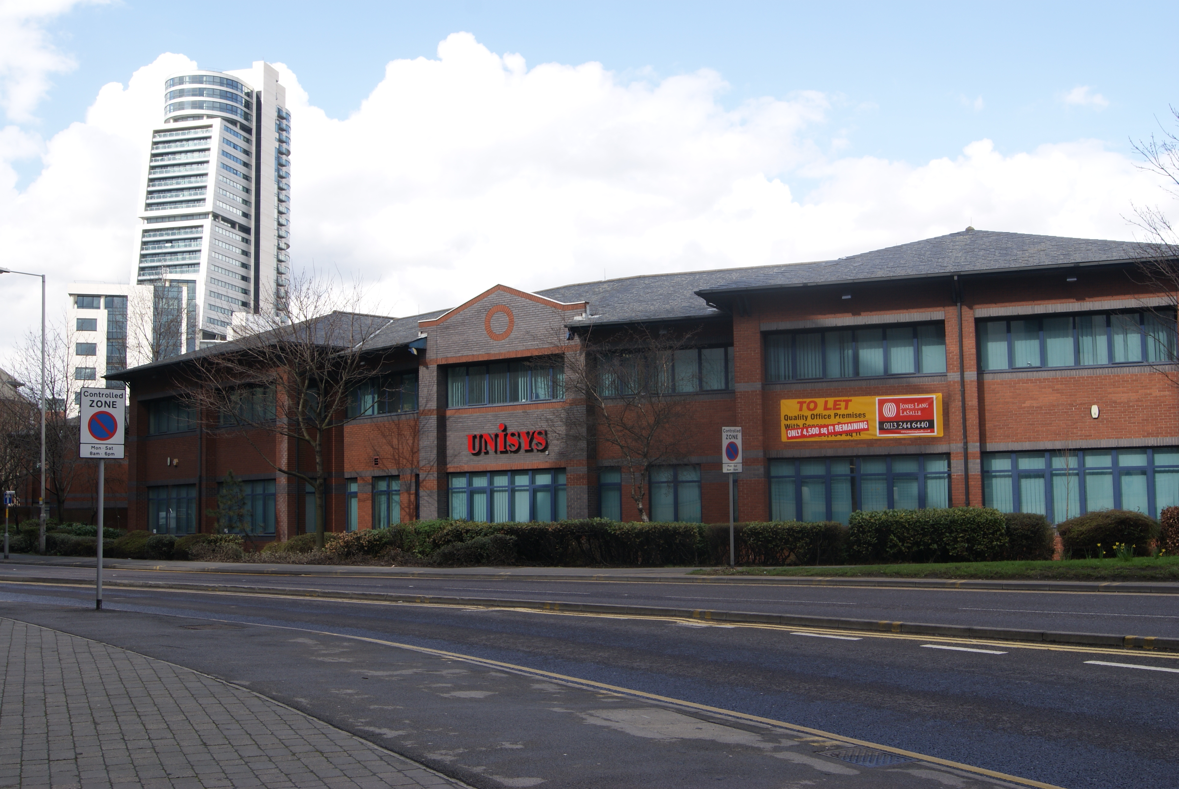 The Unisys Buildings (part of Central Park, New Lane, Leeds) as seen from Victoria Road (LS11), Leeds, West Yorkshire. Bridgewater Place can be seen behind. Taken on the afternoon of Saturday the 3rd of April 2010.